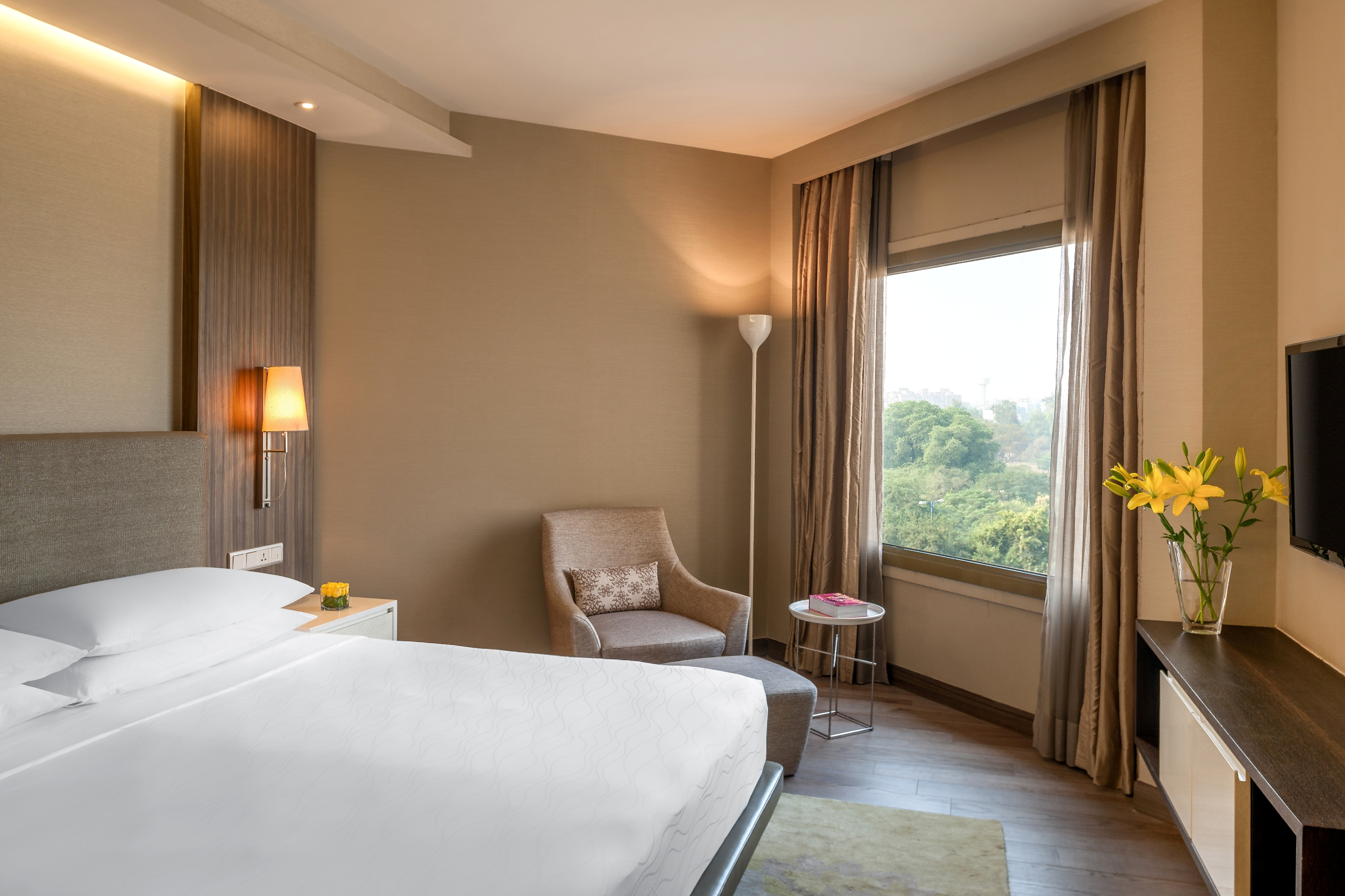 A beautiful spacious room in Hyatt Regency Delhi